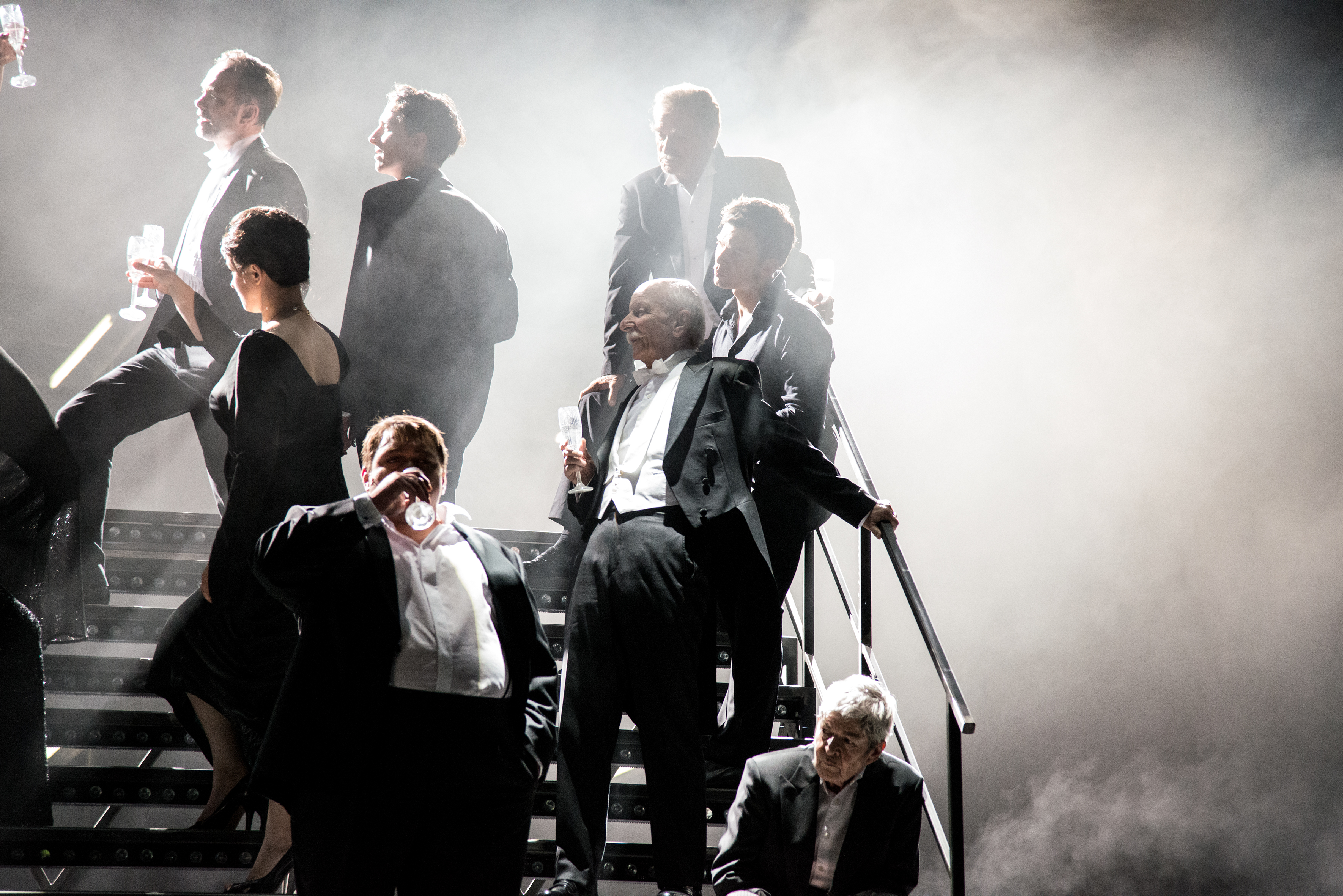 Die letzten Tage der Menschheit, Salzburger Festspiele 2014